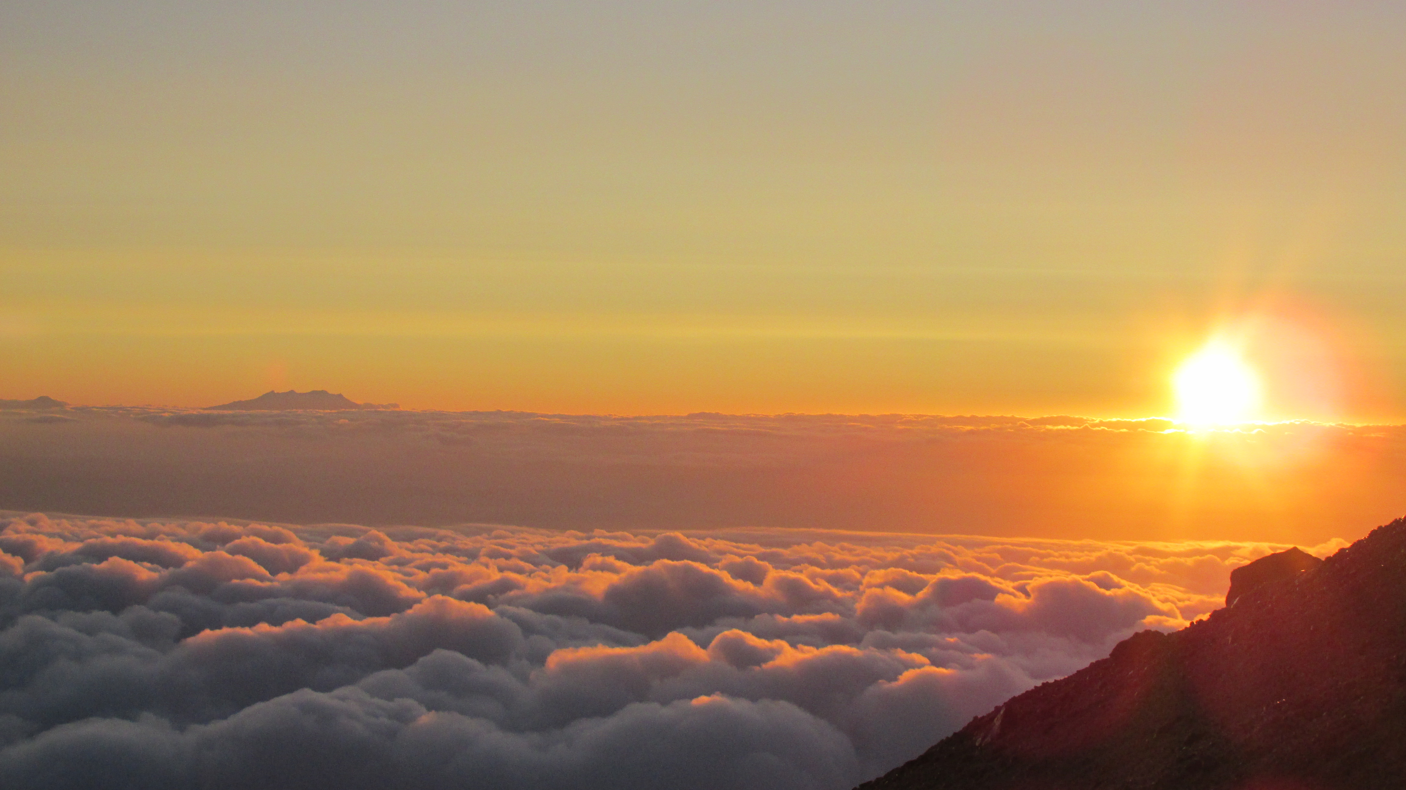 View of Mount Ruapehu from near the summit of Mount Taranaki, New Zealand